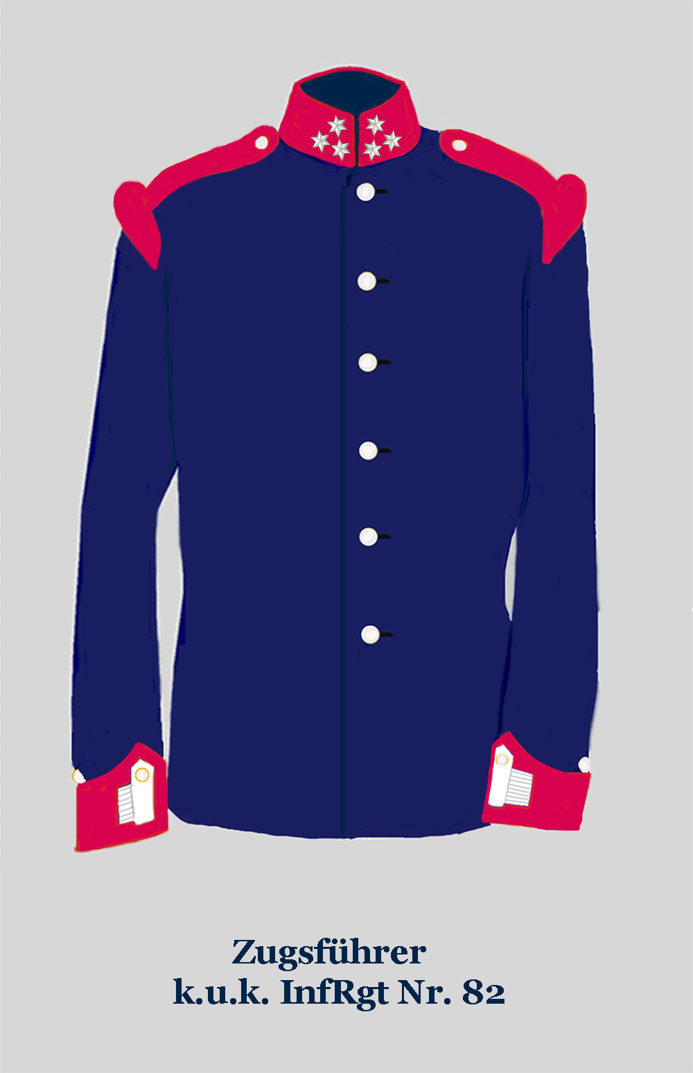 Sergeant of the k.u.k hungarian 82nd Infantry Regiment..)